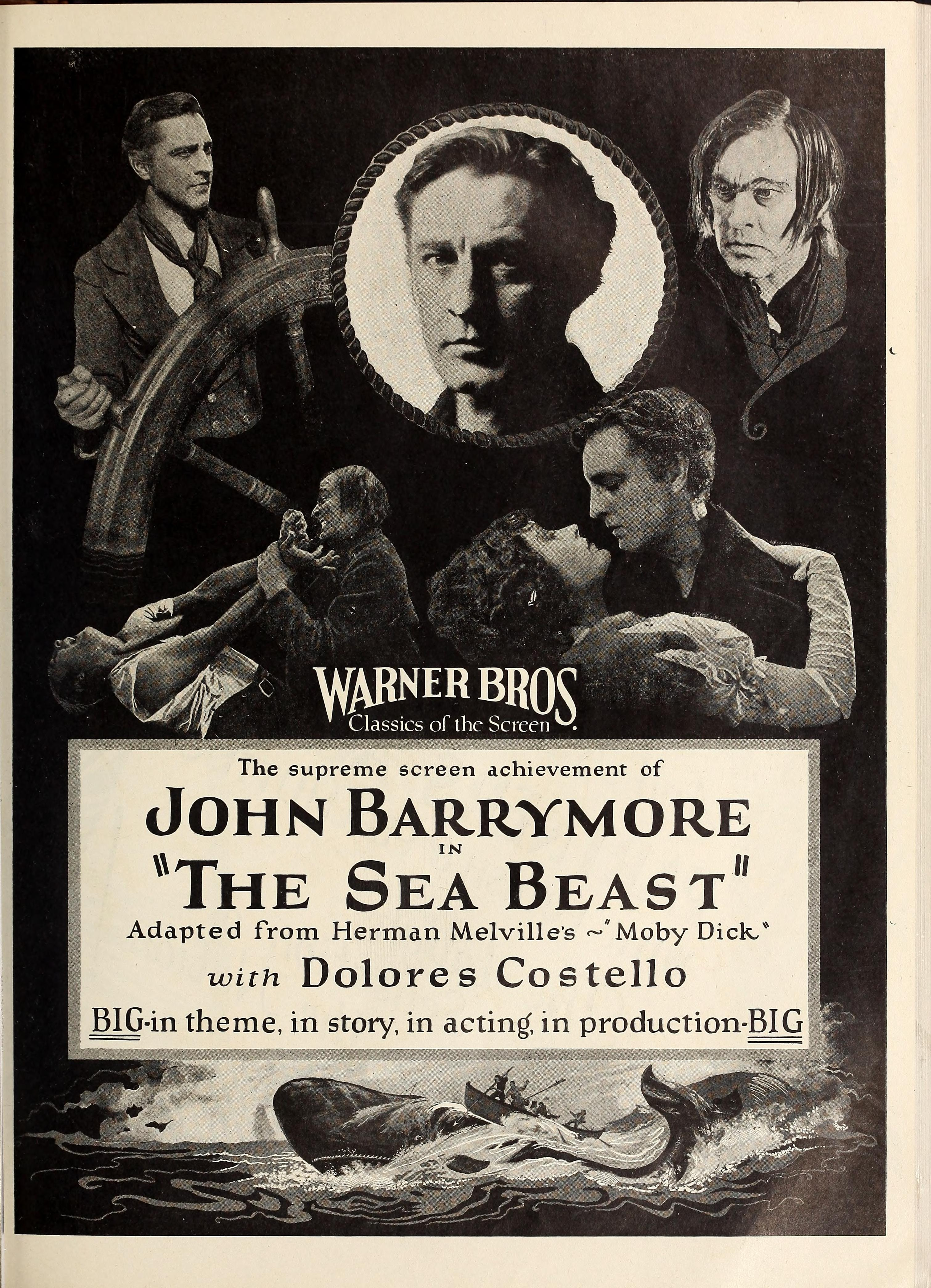 Trade ad for the 1926 film The Sea Beast.